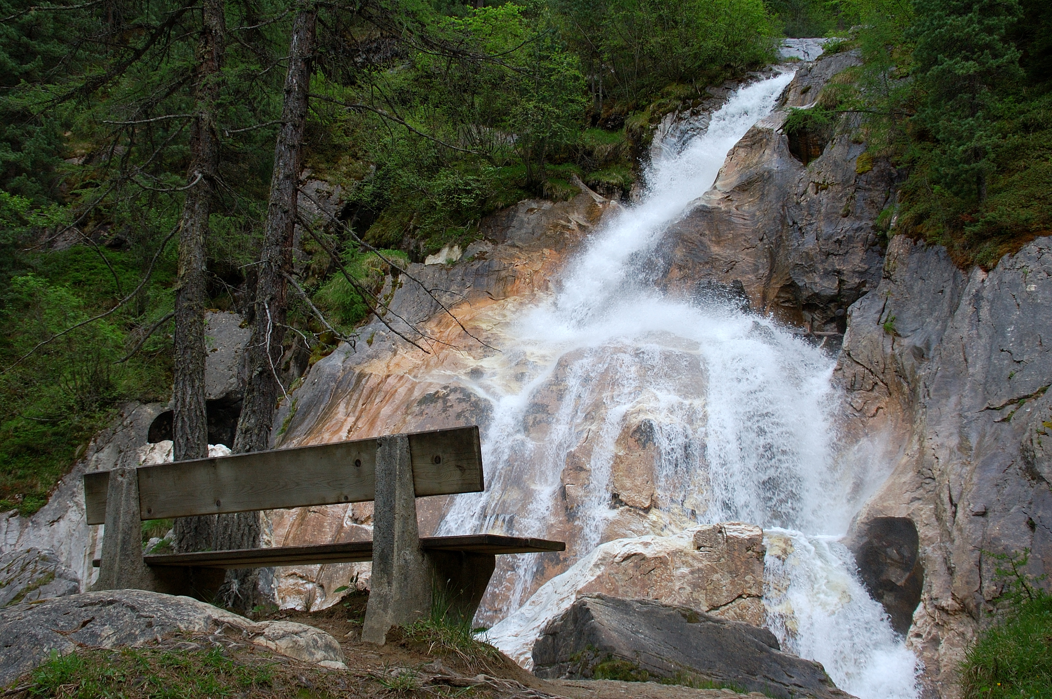 The brook Tuxerbach in Austria is fed by melt water of the Hintertux glacier area.